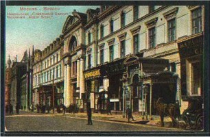 Nikolskaya Street in Moscow. Slavyansky Bazar Hotel